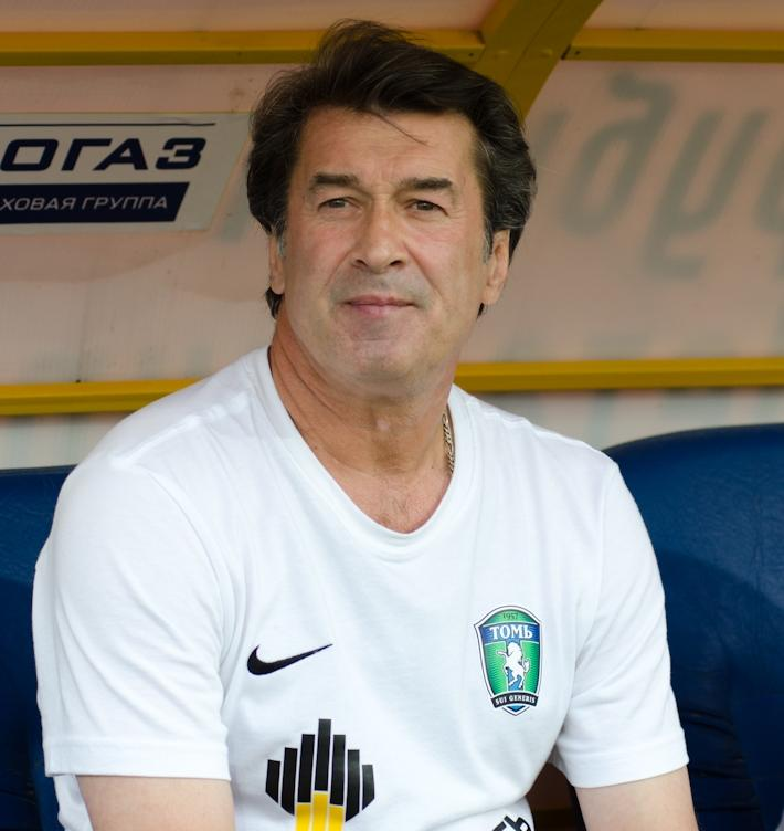 Anatoli Davydov coaching FC Tom Tomsk in 2013.